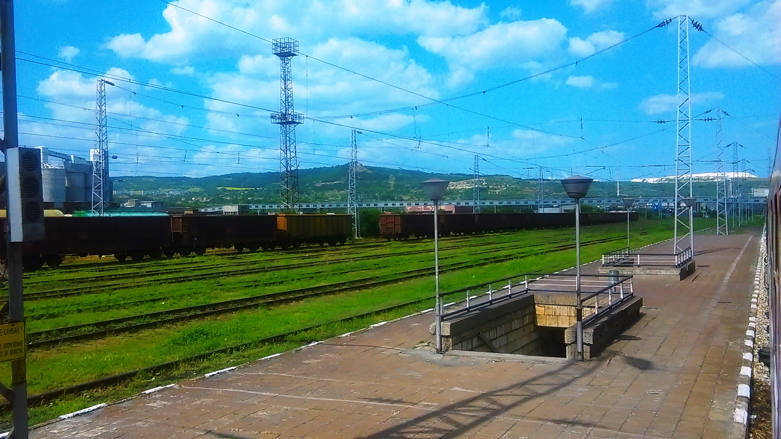 Devnya industrial landscape